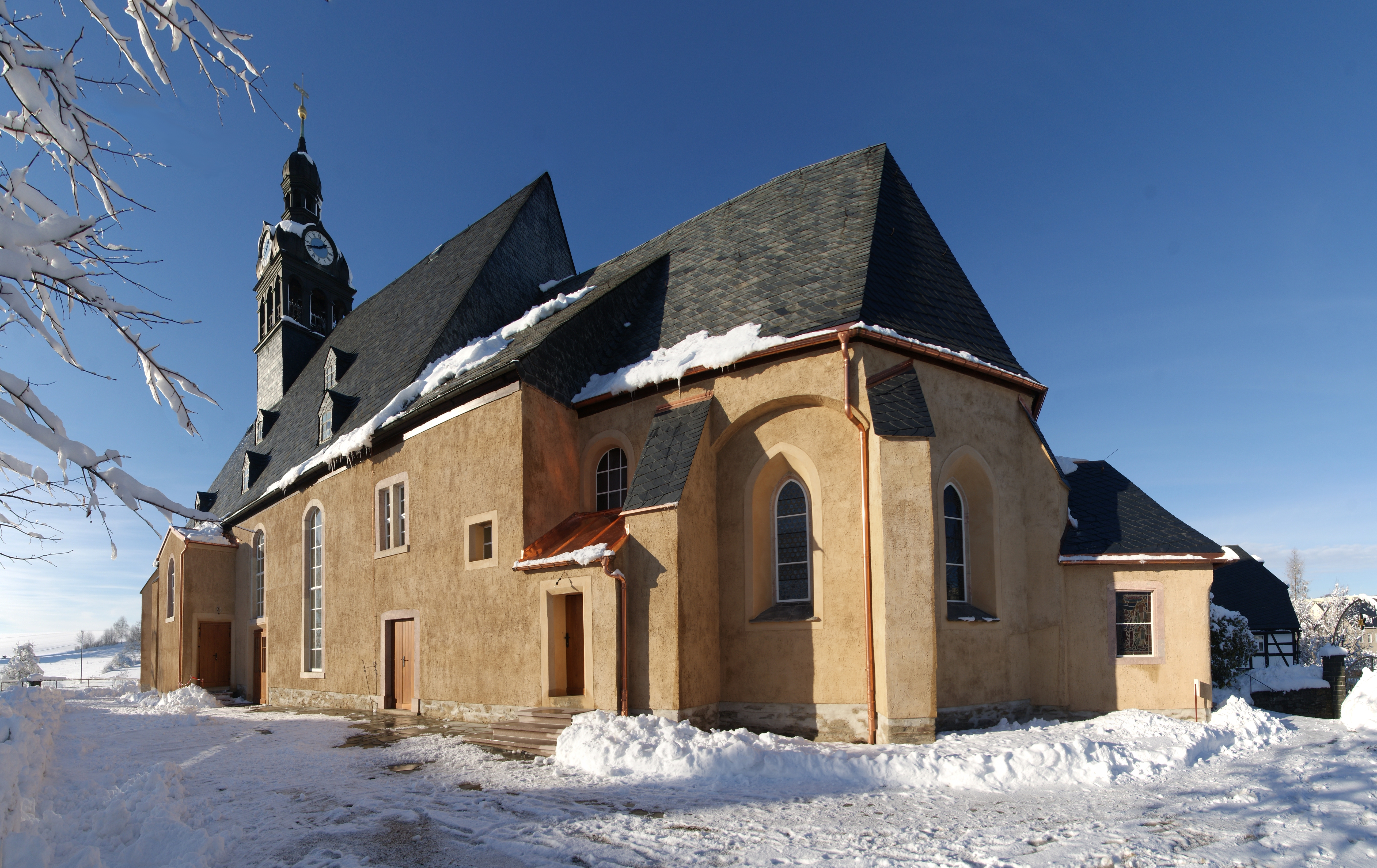 Grossolbersdorf Church Das Foto wurde aus 19 Einzelaufnahmen zusammengesetzt. /The photo was assembled from 19 individual shots.